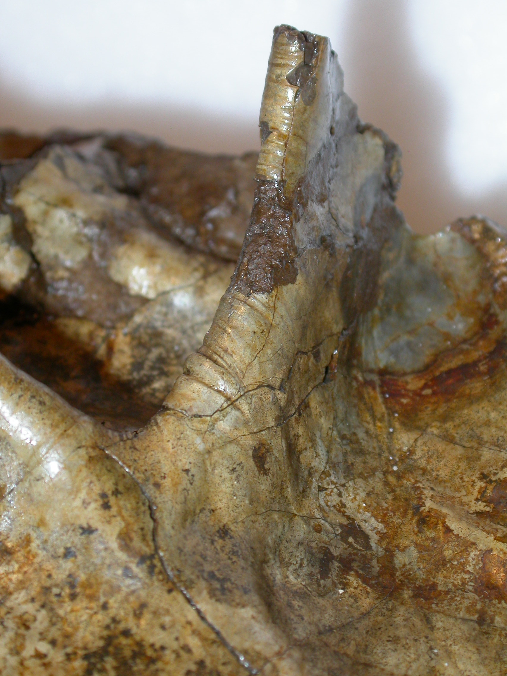 Xenoposeidon holotype BMNH R2095, left lateral view. Detail of accessory infrapostzygapophyseal lamina showing wrinkled bone texture.